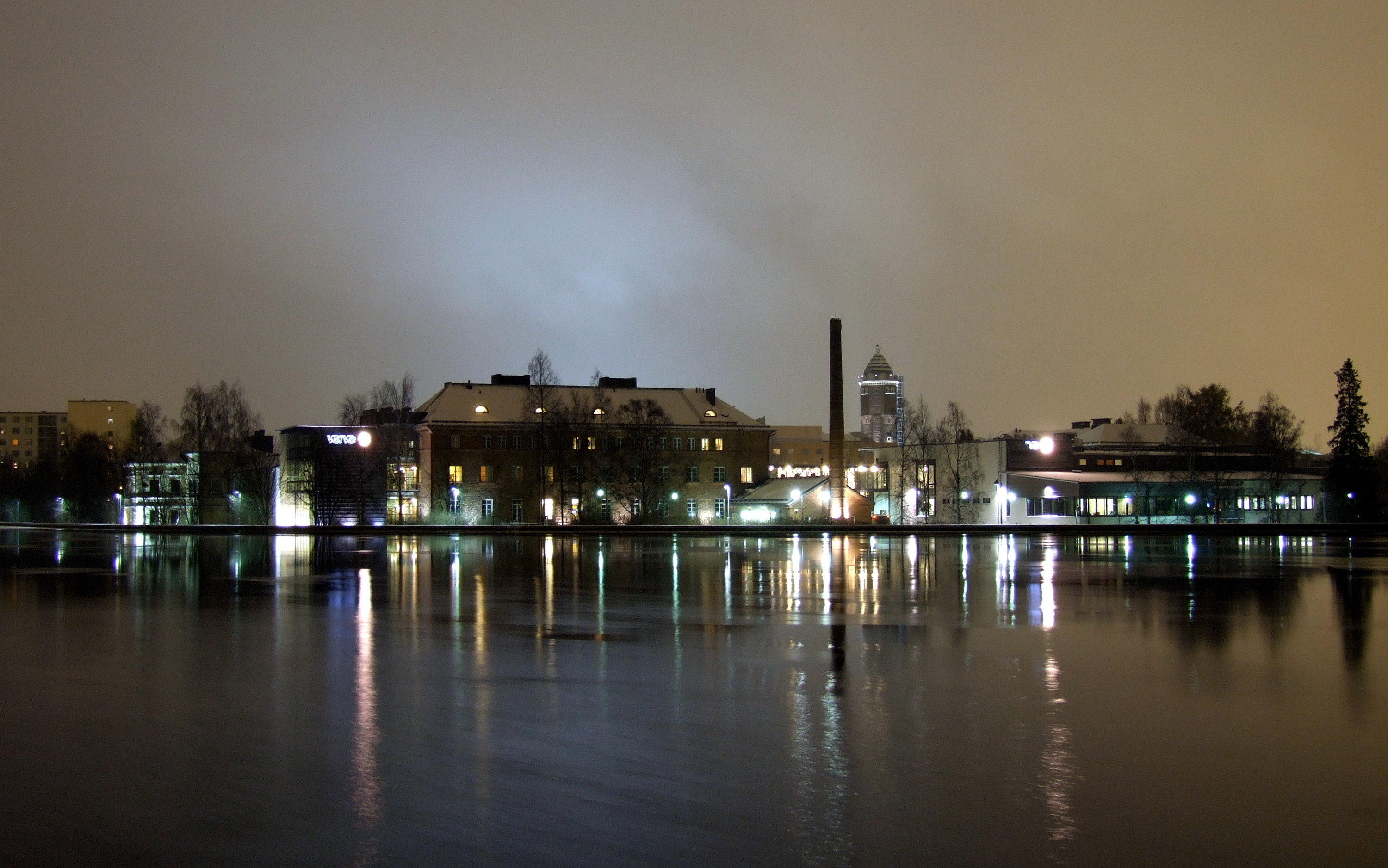 Buildings of Verve rehabilitation centre in Oulu.